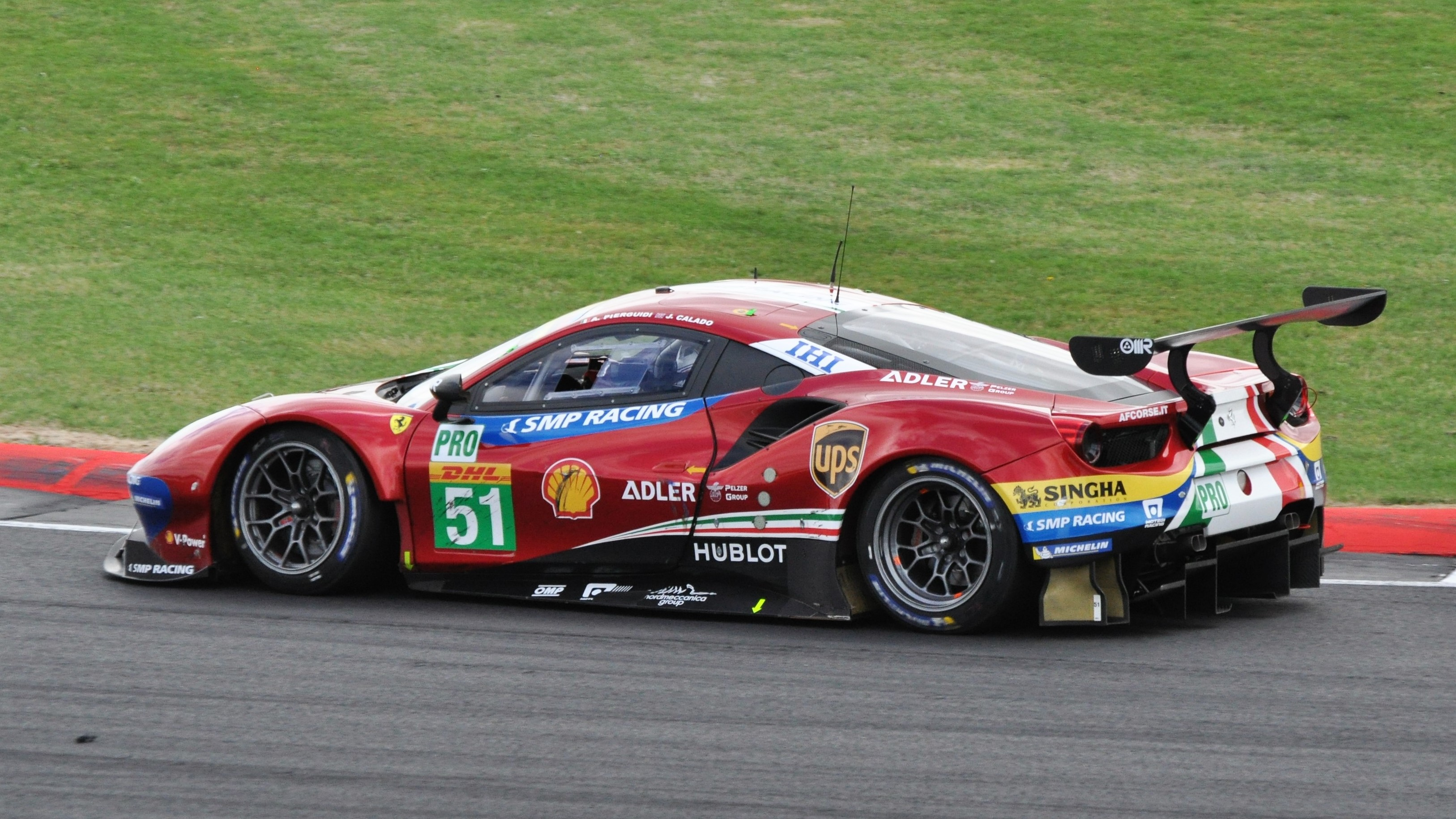 Italian driver Alessandro Pier Guidi driving the number 51 AF Corse entry, at Village corner during the 2018 6 Hours of Silverstone race. Pier Guidi and his co-driver, British driver James Calado, were lying out of the top three in the LMGTE Pro class at the time this photo was taken, but went on to win.